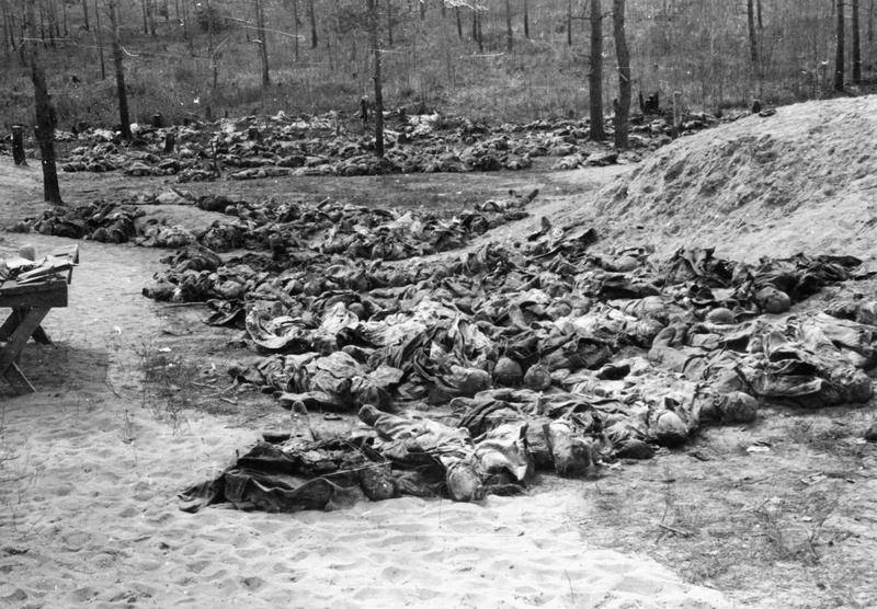 The Katyn Massacre, 1940 Rows of exhumed bodies of Polish officers placed on the ground by the mass graves, awaiting examination.